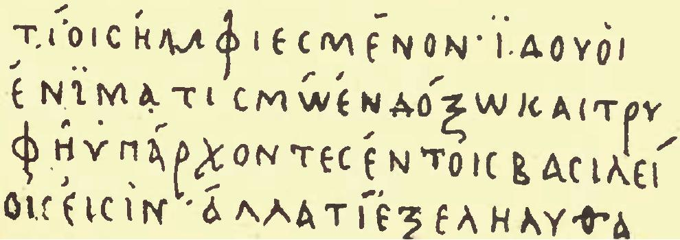 fragment of Luke 7:25-26 from facsimile edition of the codex, published in Scrivener, A Plain Introduction... (1894)